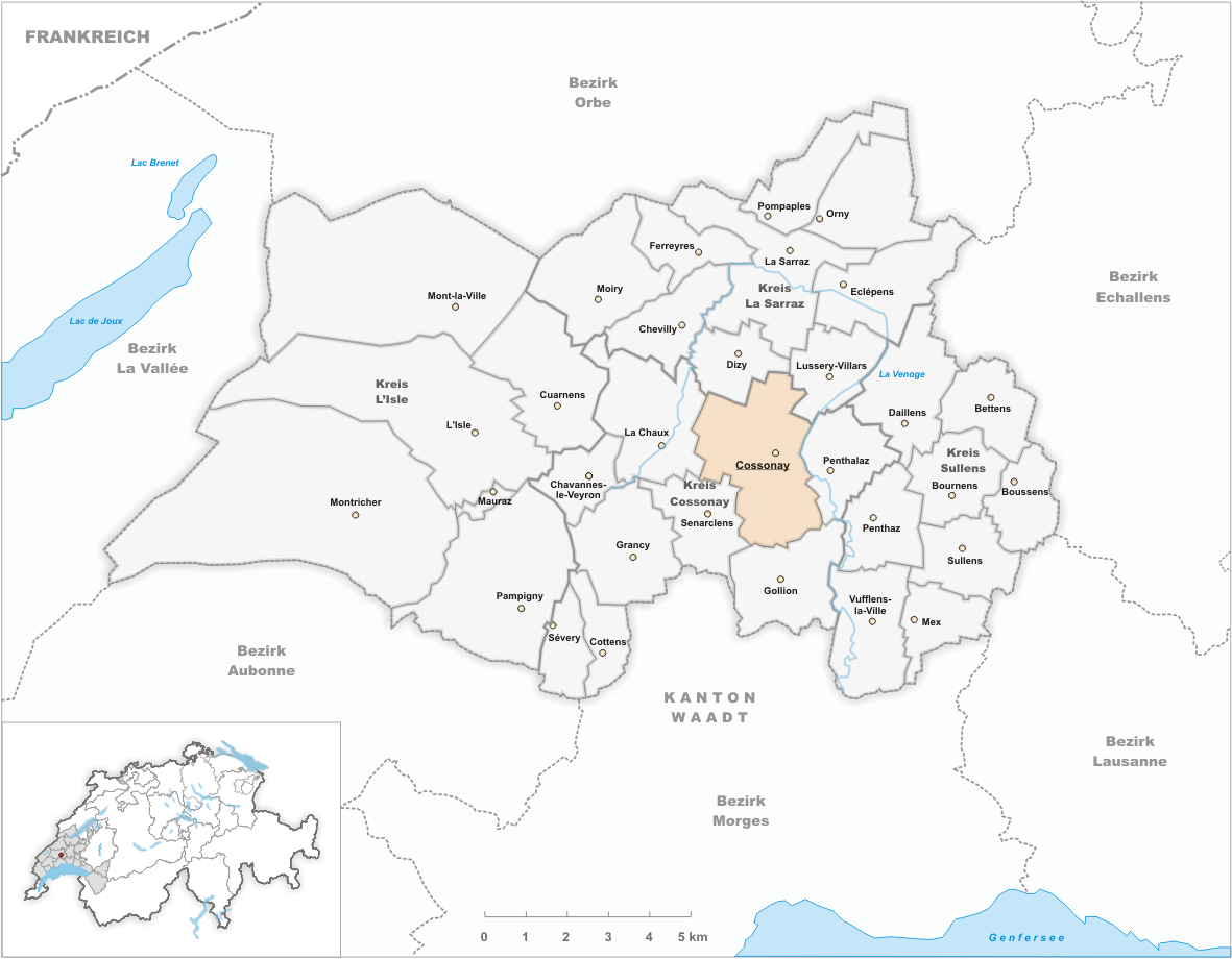 Municipality Cossonay